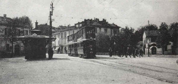 Sesto San Giovanni - Rondò inizi 900